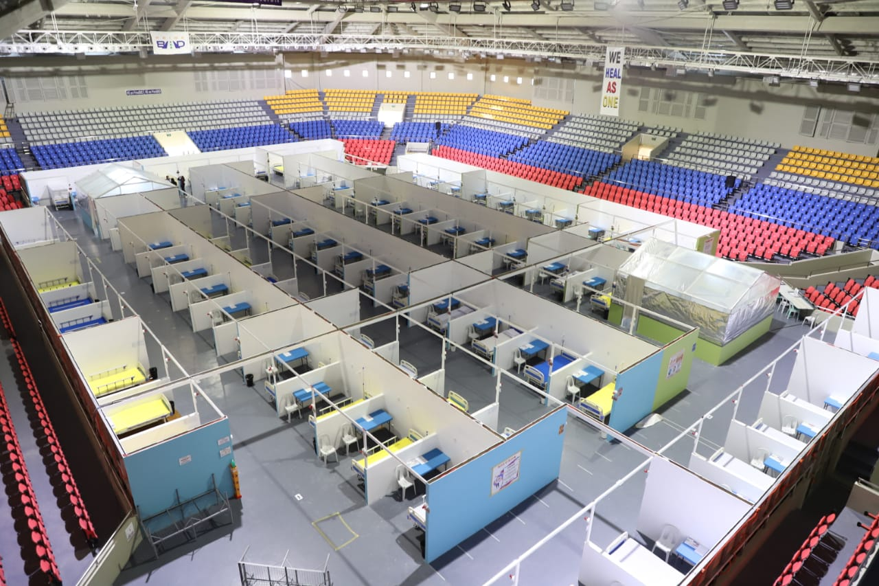 Completed in just a week, three We Heal As One Centers in Metro Manila are now ready to accommodate Covid-positive patients to reduce the community spread and help decongest hospitals. An inspection in one of these centers was held Monday, April 13, at the Ninoy Aquino Stadium in Rizal Memorial Complex. The inspection was led by Senator Christopher “Bong” Go, House Speaker Alan Peter Cayetano, National Task Force COVID-19 chief implementer and Presidential Peace Adviser Secretary Carlito Galvez, Jr., Armed Forces of the Philippines (AFP) Chief of Staff General Felimon Santos, Jr., Health Secretary Francisco Duque III, Presidential Adviser for Flagship Programs and Projects and Bases Conversion and Development Authority President and CEO Vince Dizon, Manila City Mayor Francisco “Isko” Moreno and Public Works and Highways Undersecretary Emil Sadain. The 112-bed stadium will accept Covid-positive patients with mild symptoms and those who are asymptomatic. The other quarantine centers that are ready are the Philippine International Convention Center (PICC) Forum Halls and the World Trade Center. All centers have air-conditioned cubicles, free food for the patients and frontliners, free internet connection, and 24/7 health care by the medical staff.